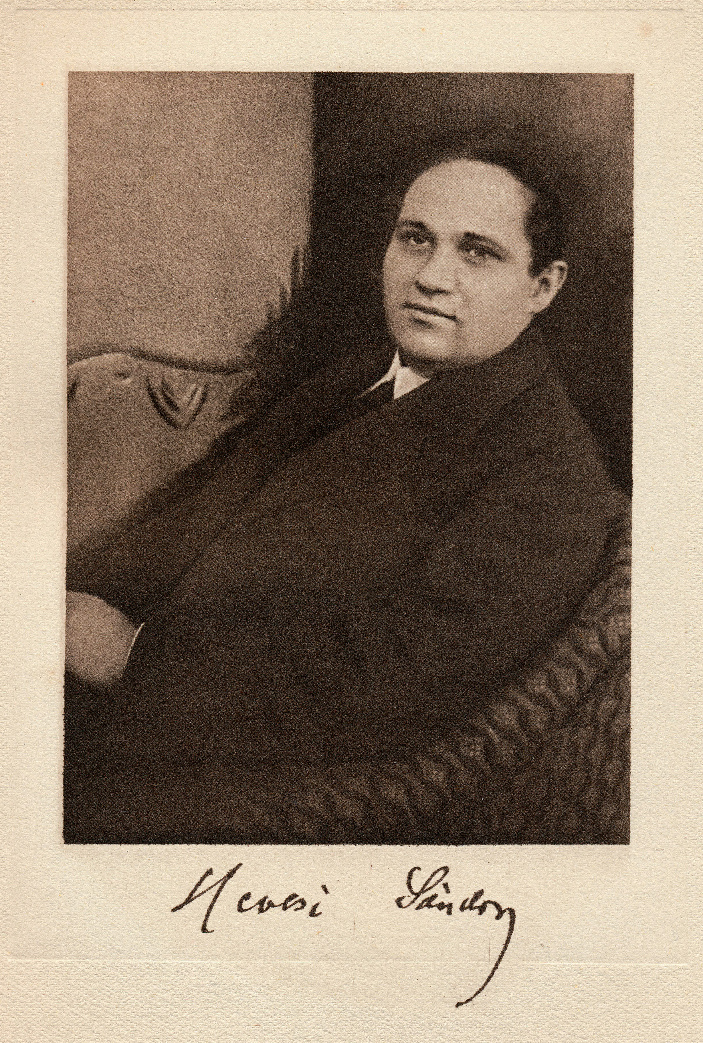 Sándor Hevesi (1873-1939) Hungarian writer